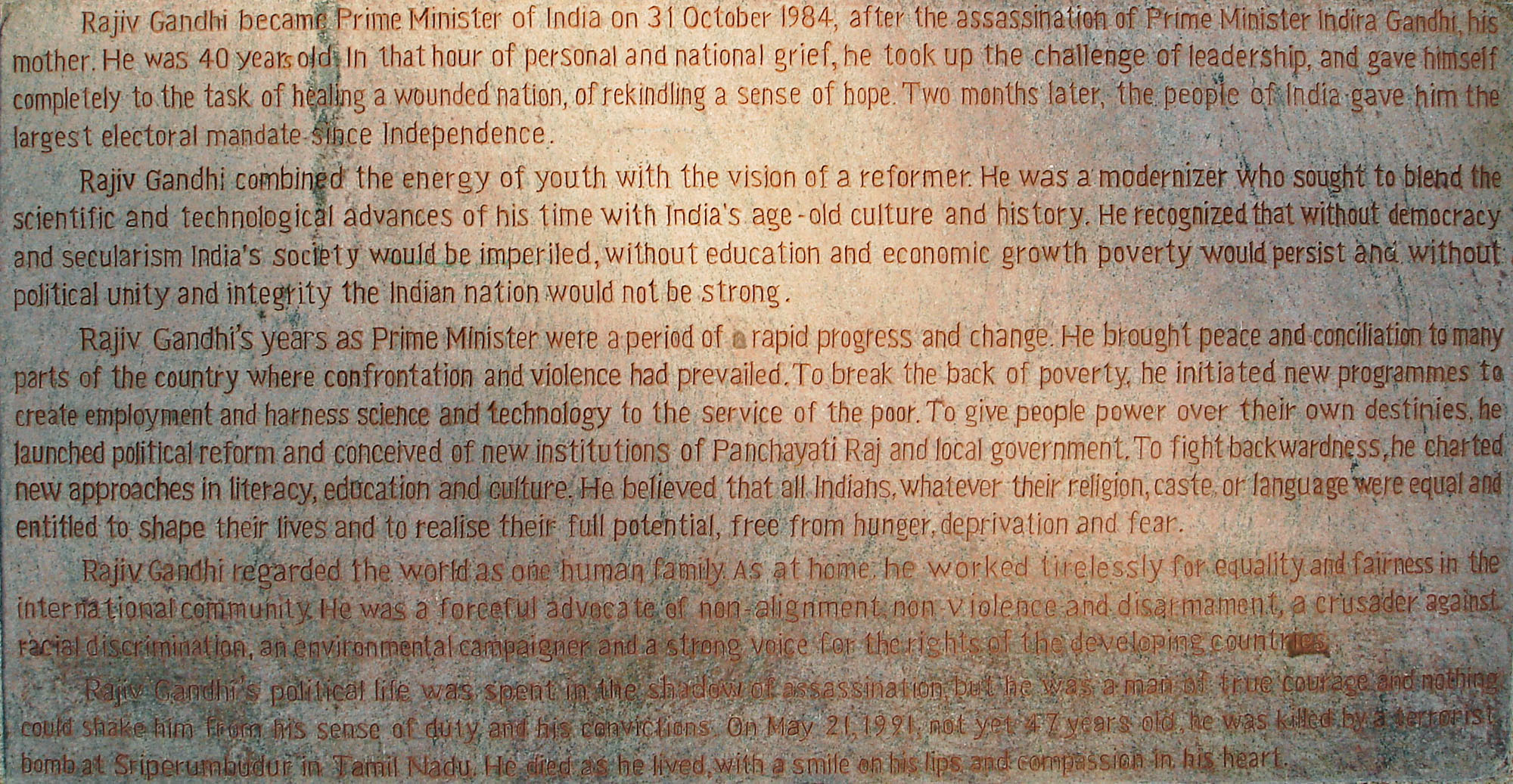 The stone plaque at the assasination site of Rajiv Gandhi.